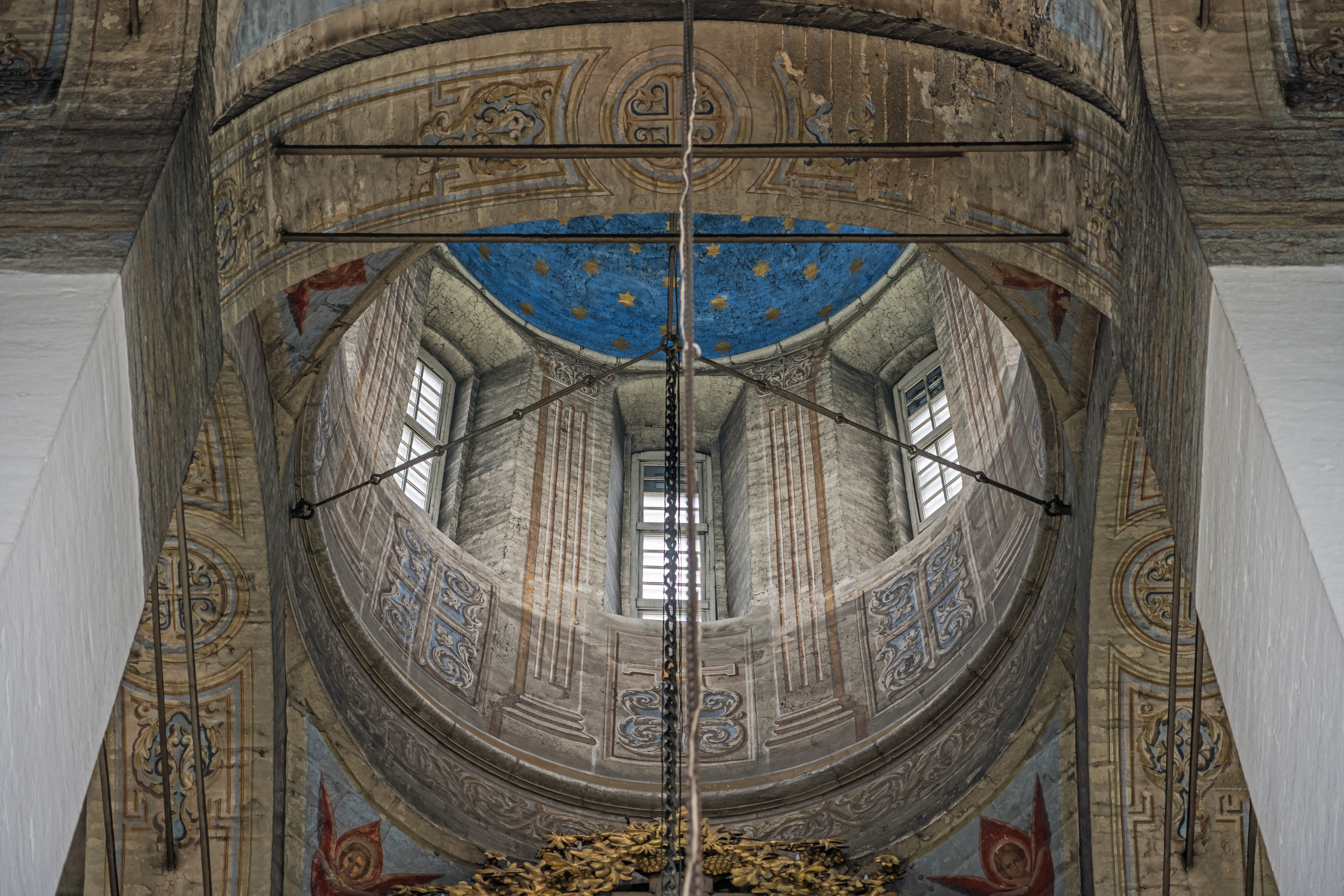 Interior of Trinity Cathedral in the Kremlin in Pskov, Russia